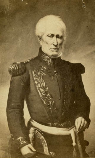 Portrait of Admiral William Brown with his navy uniform, holding his sword and hat.